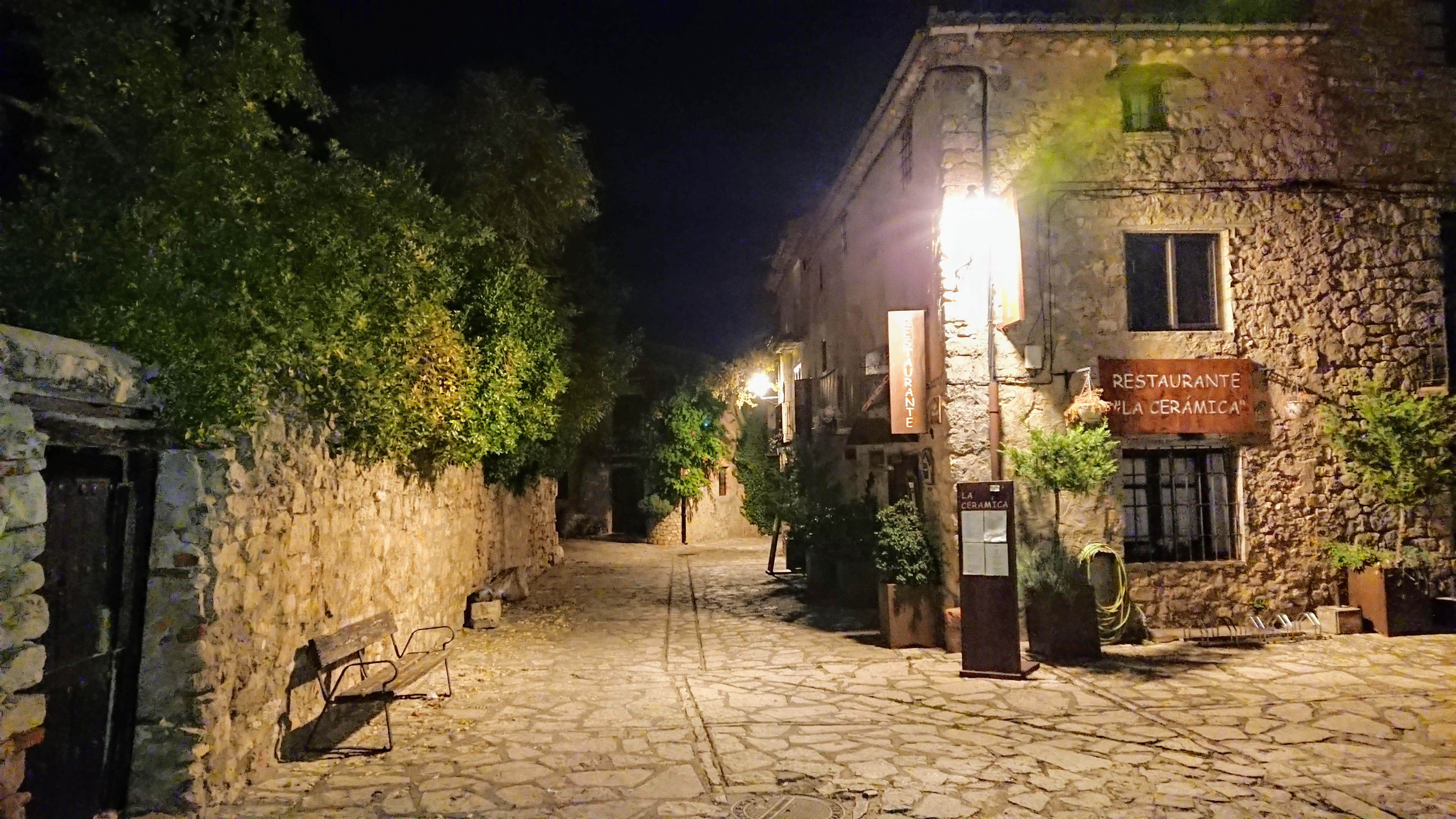 Medinaceli street view at night, Soria (SPAIN)